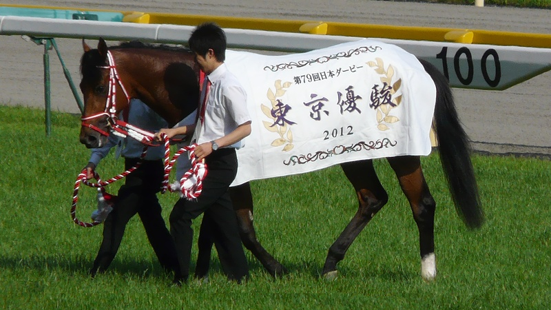 Deep-Brillante20120527